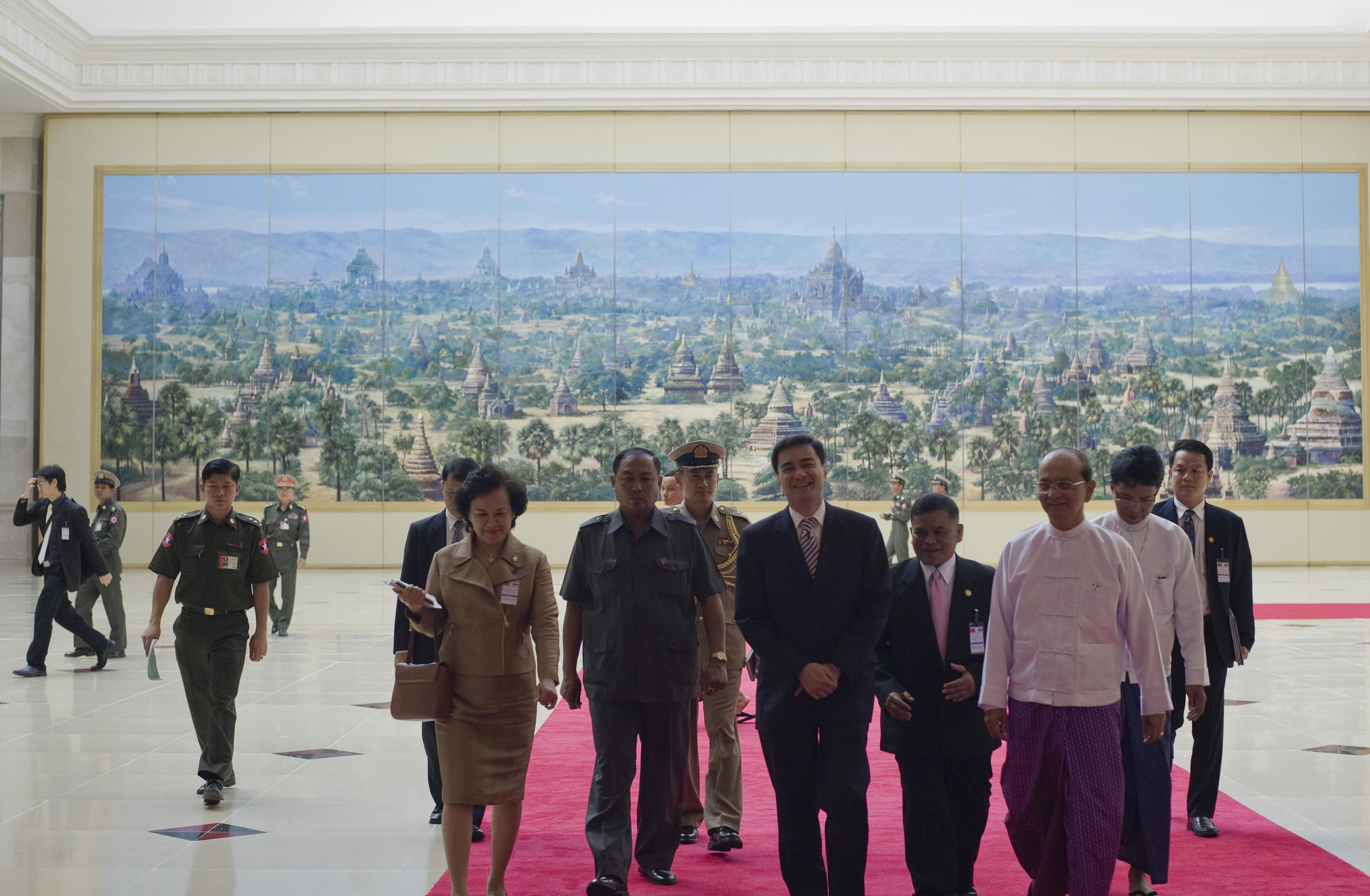 Bagan panorama behind Abhisit and Thein Sein